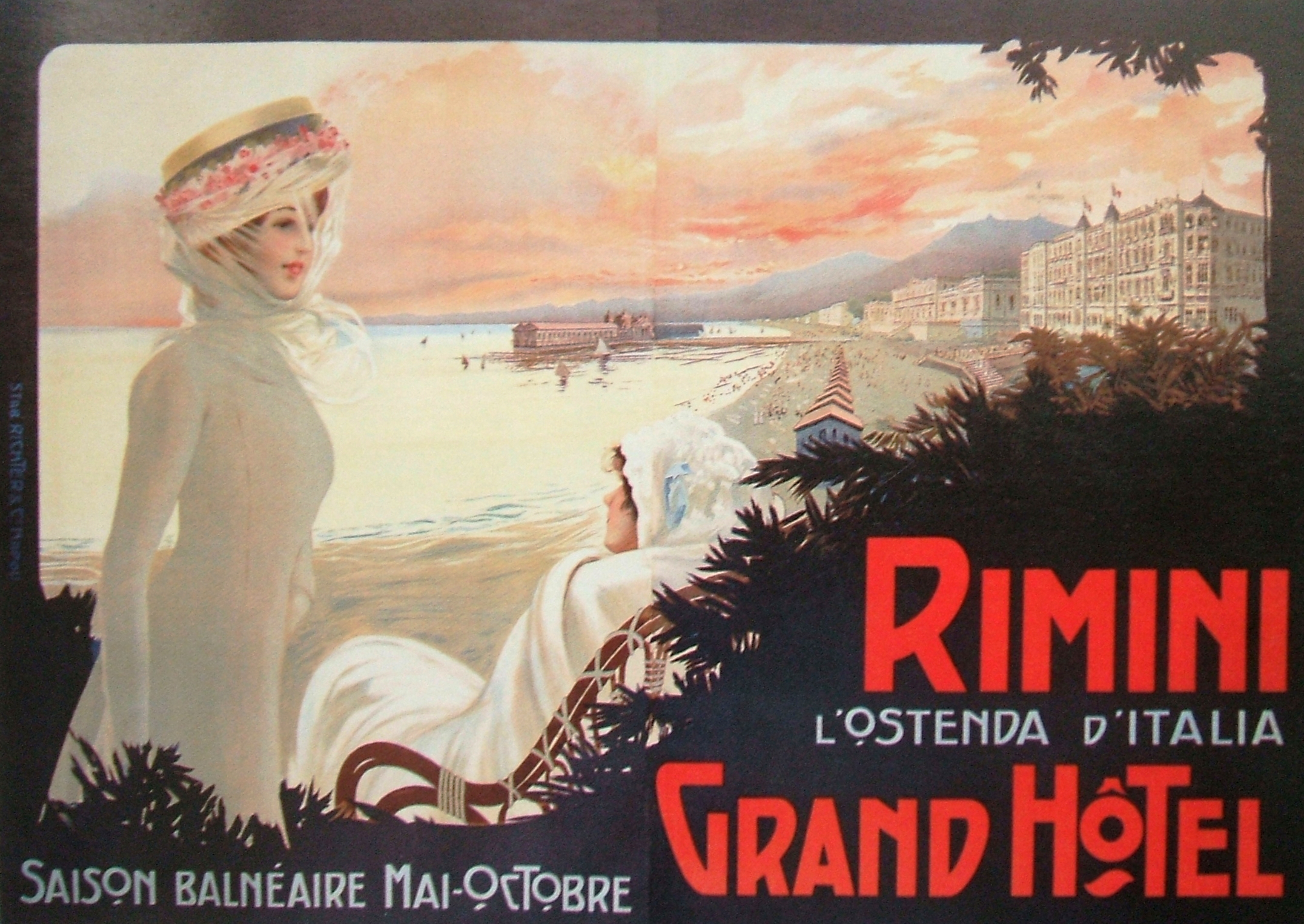 Rimini Italy manifesto 1908